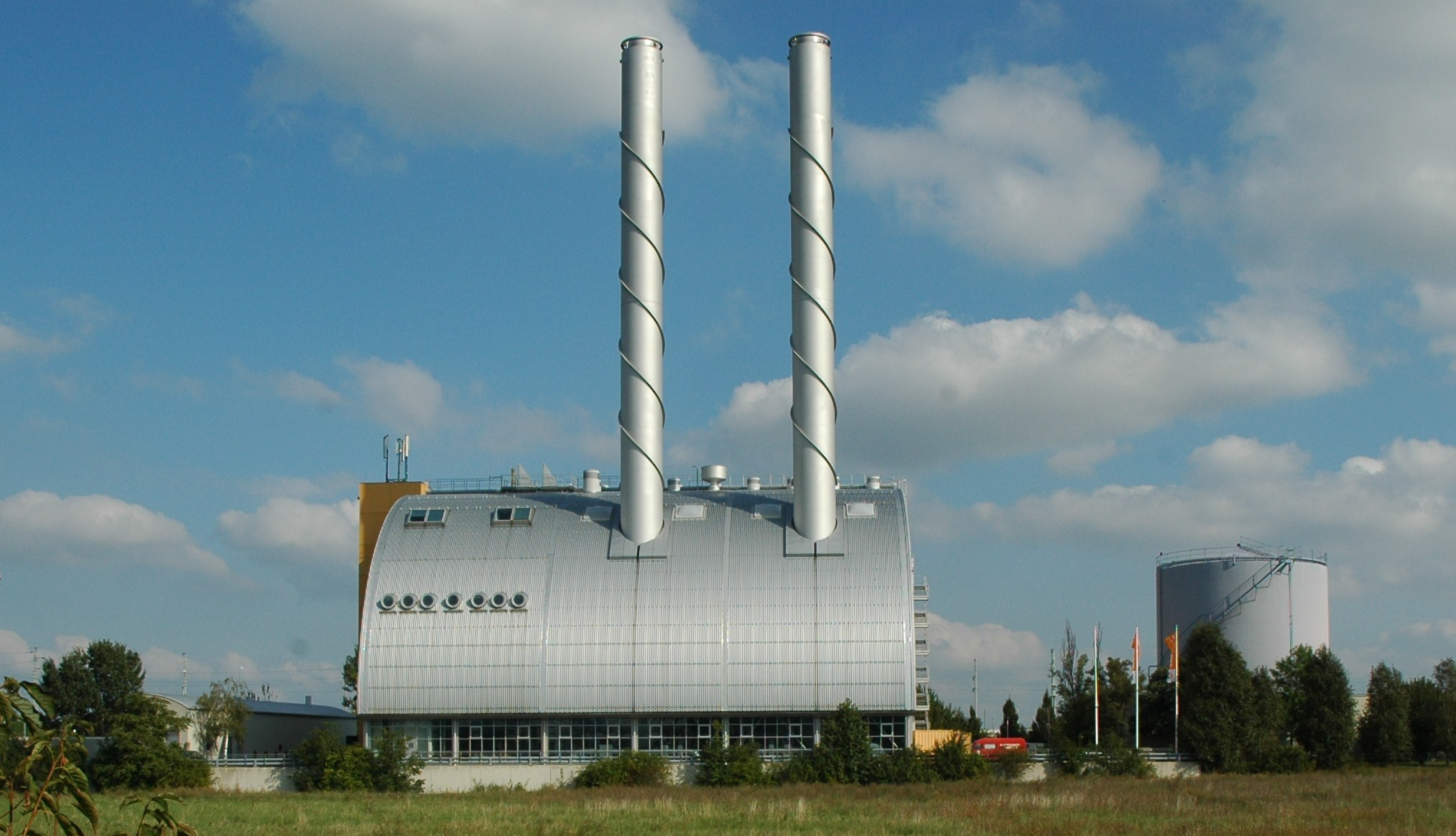 The bigest fossile fired district heating plant from Austria operated by Fernwärme Wien